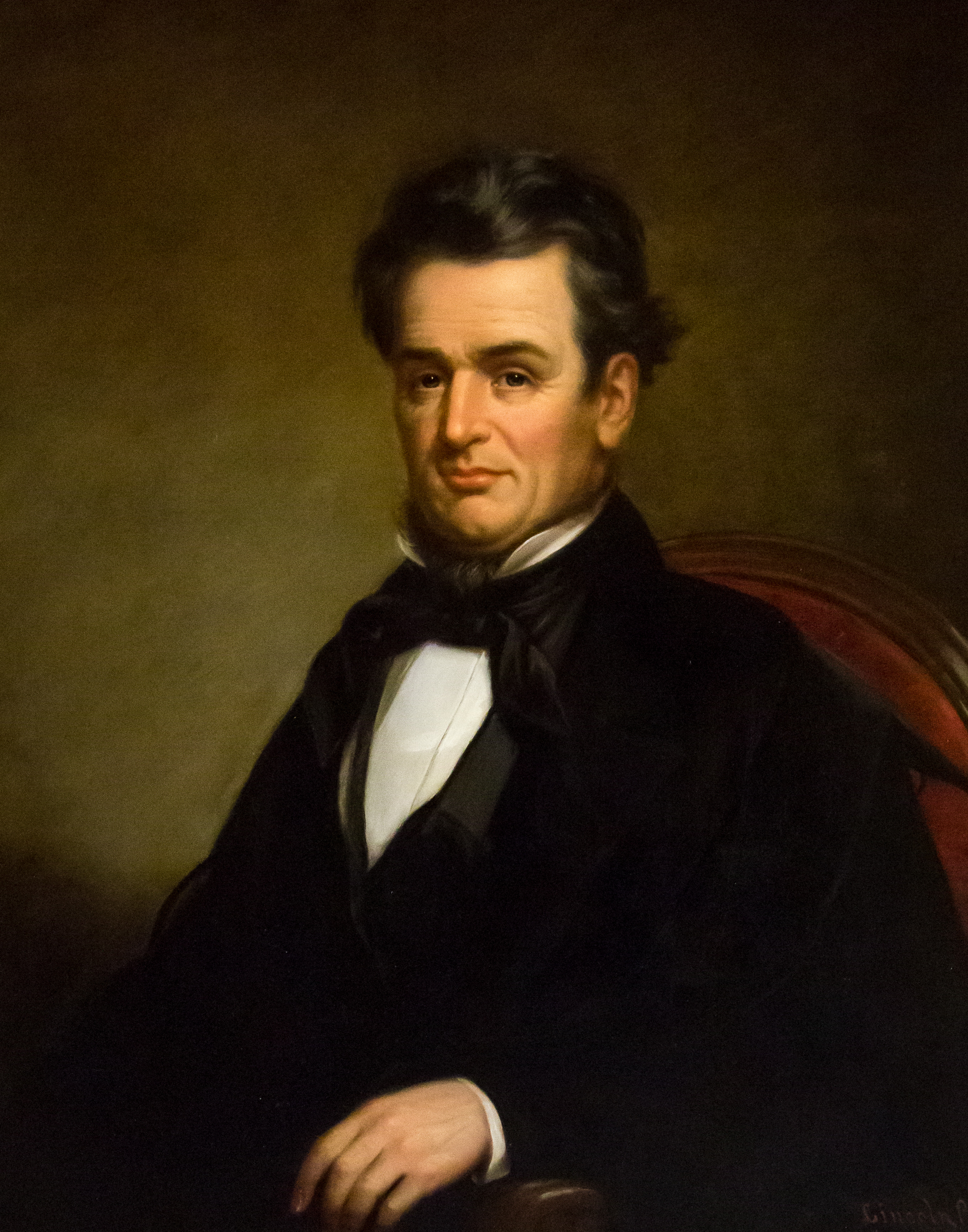 Byron Diman (1795-1865)